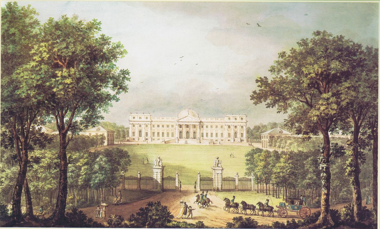 One of the first depictions of Laeken Castle, then named Schonenberg (front)